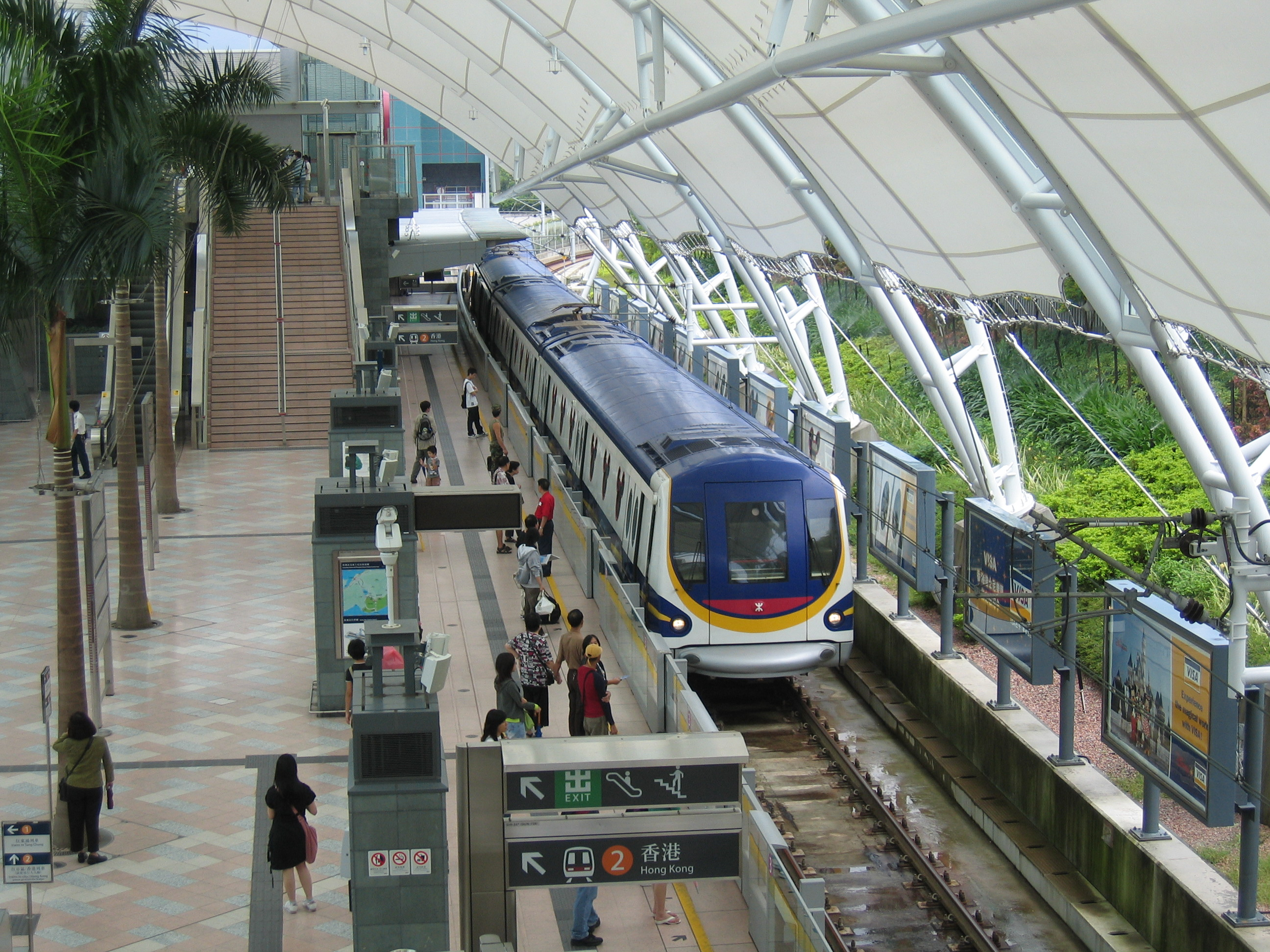 Image is a photo of the Yan O station in Hongkong. It is taken by Hui Lok Him and he has the copyright.